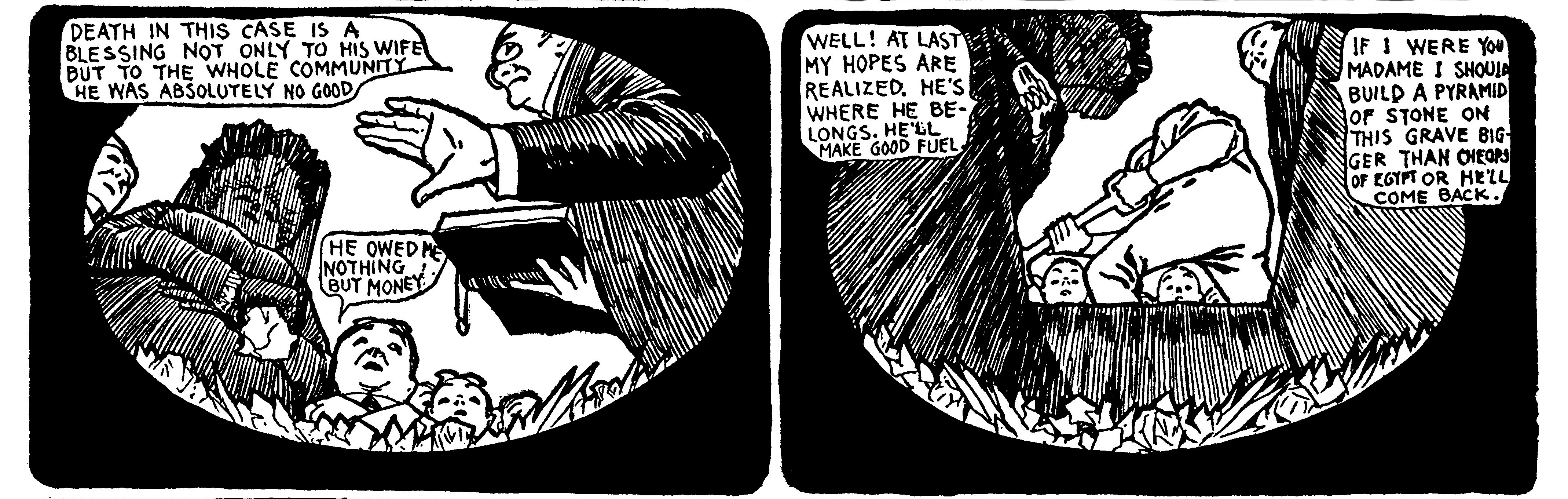 Detail of Dream of the Rarebit Fiend episode from 1905-02-25 by Winsor McCay